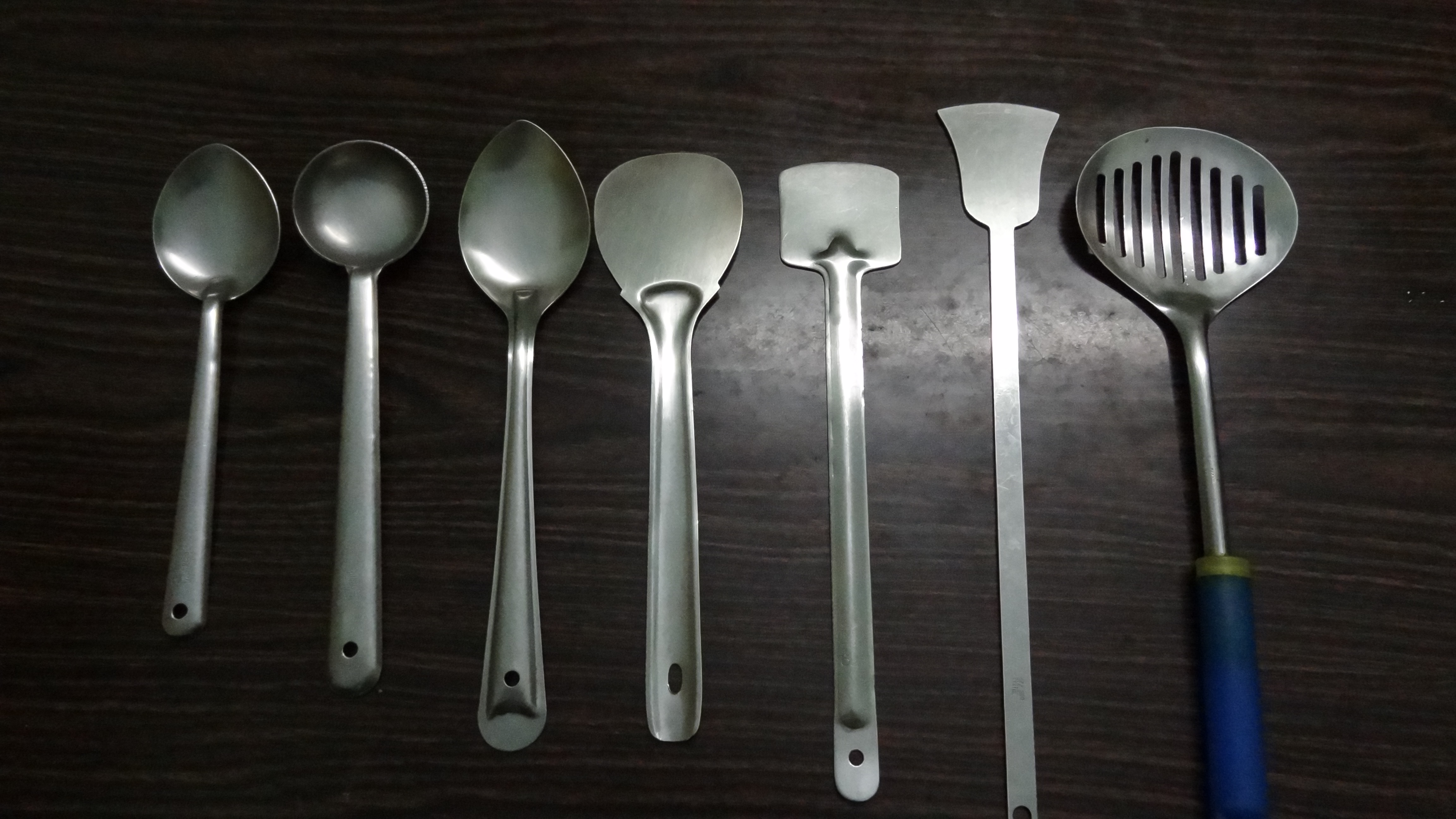 Different cooking tools in a Bengali household